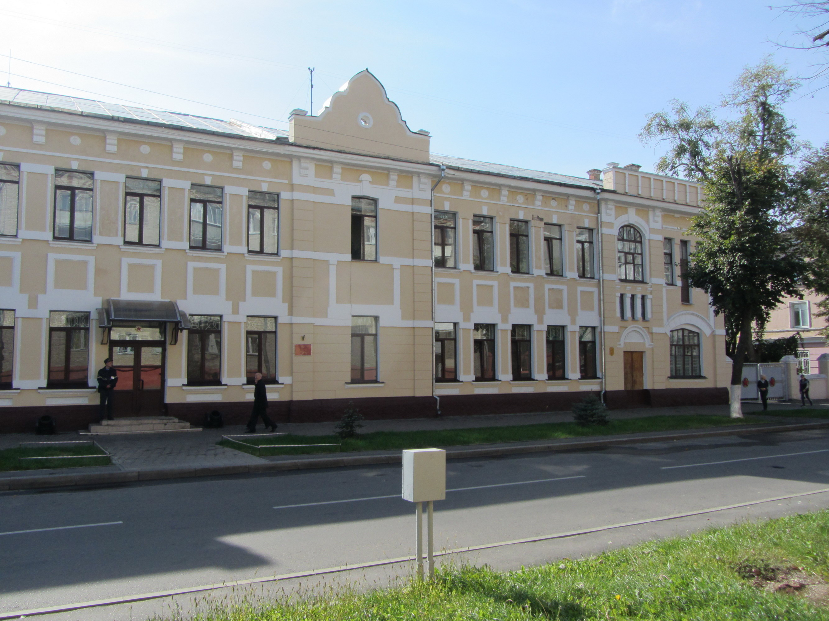 Беларуская (тарашкевіца): Будынак. г. Гомель This is a photo of Belarusian heritage monument. Reference number: 313Г000089 ( WLM)